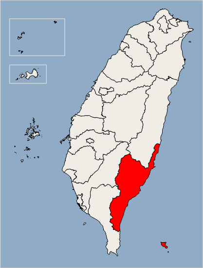 Location of Taitung County in Taiwan